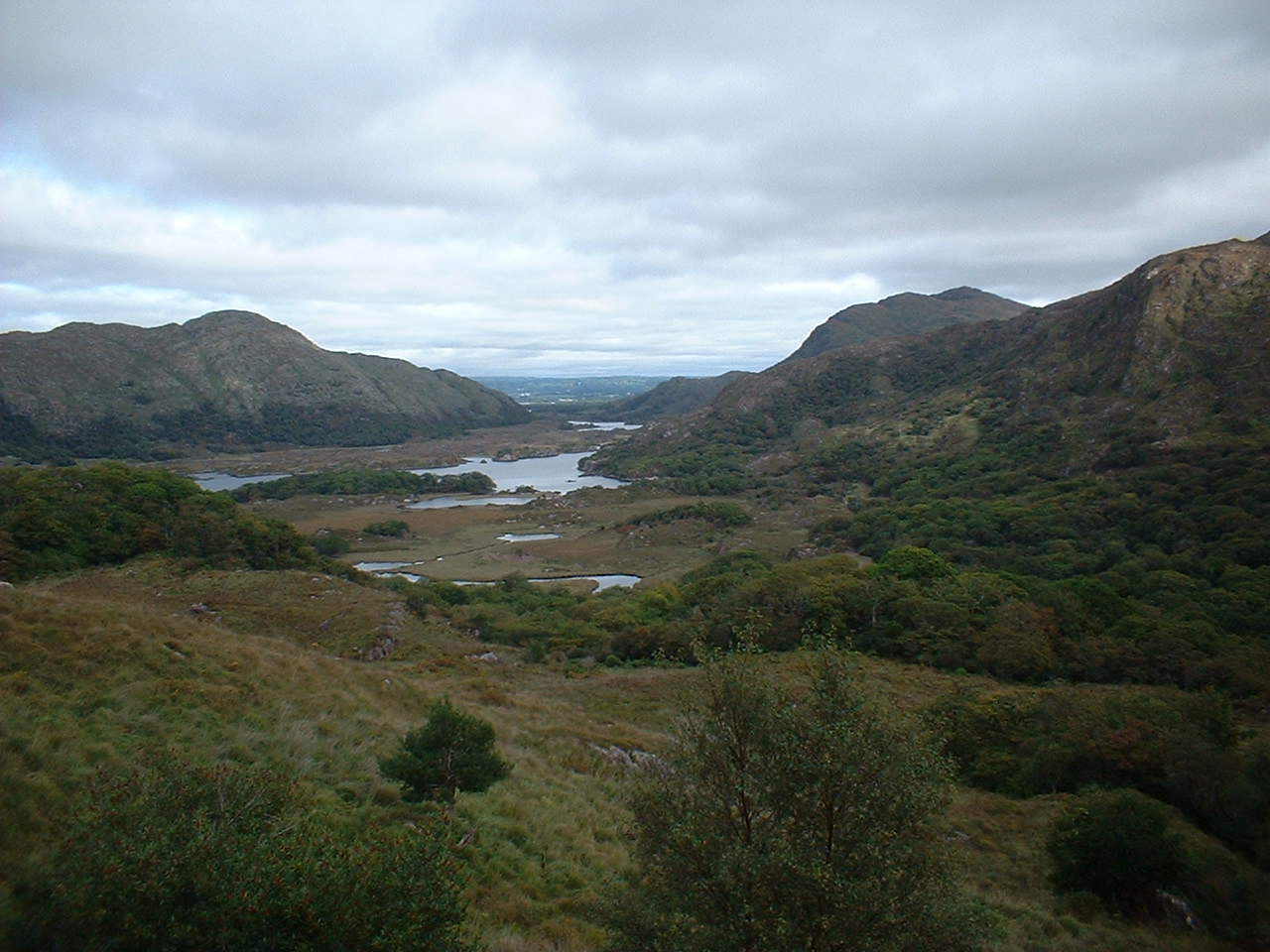 Ladies view in County Kerry